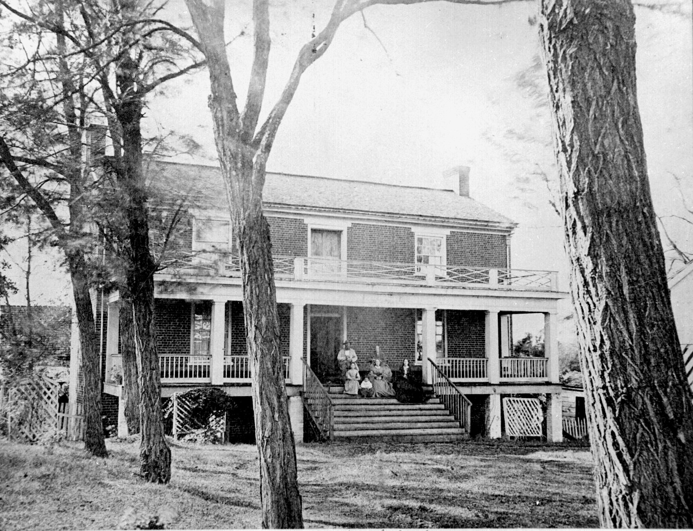 McLean house where General Lee surrendered. Appomattox Court House, Virginia, April 1865. Photographed by Timothy H. O'Sullivan.